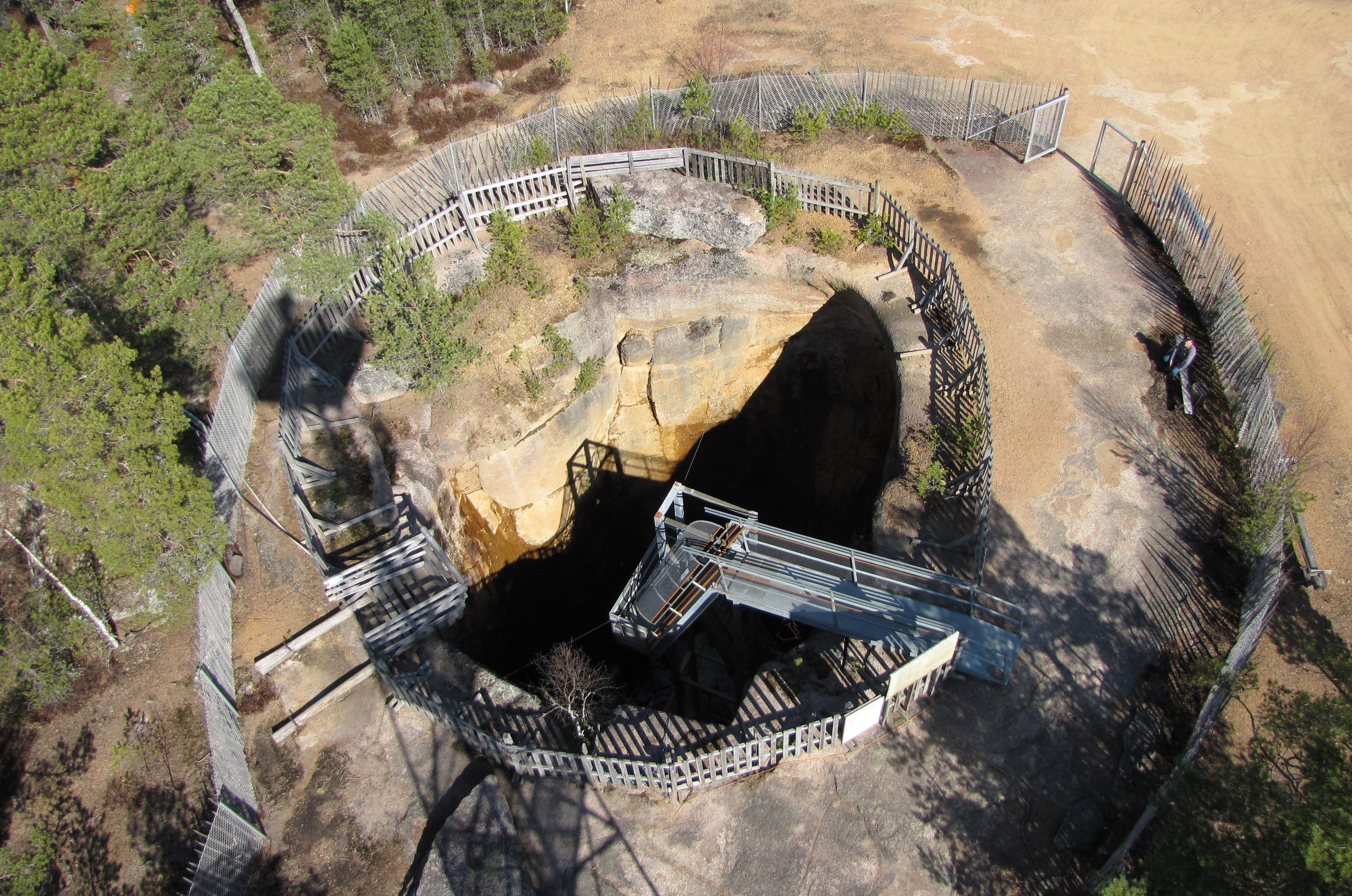 ”Pirunpesä” (Devil's Nest) on the top of Isovuori hill, Jalasjärvi, Finland.